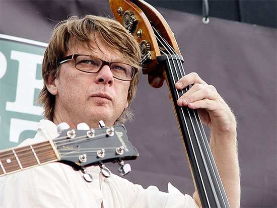 Tony Overwater at Aarhus Jazz Festival 2013